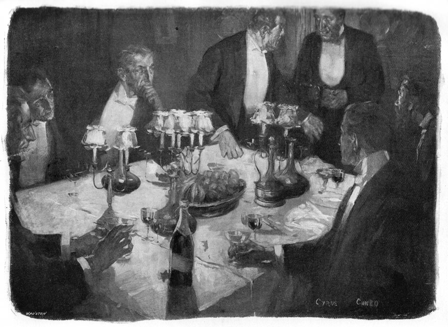 Pall Mall's illustration for E. W. Hornung's Raffles short story "The Criminologists’ Club" by Cyrus Cuneo. This story was first published in the US in Collier’s Weekly in the March 25, 1905 issue, and in the April 1905 issue of Pall Mall Magazine in the UK. It can be dated by the cricket match mentioned, and takes place in February, 1893.